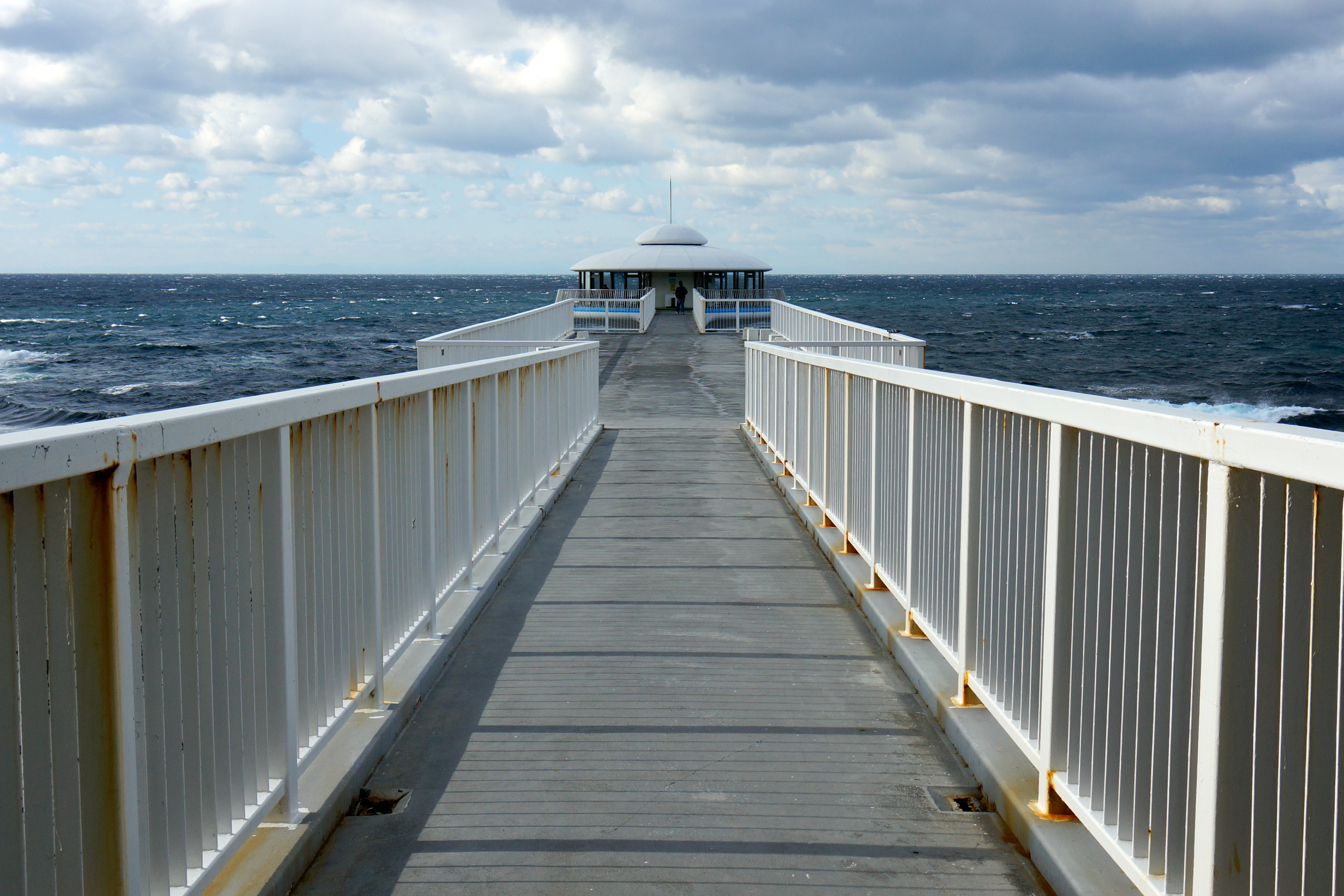 Shirahama Kaichu Observatory Deck in Shirahama, Wakayama prefecture, Japan.